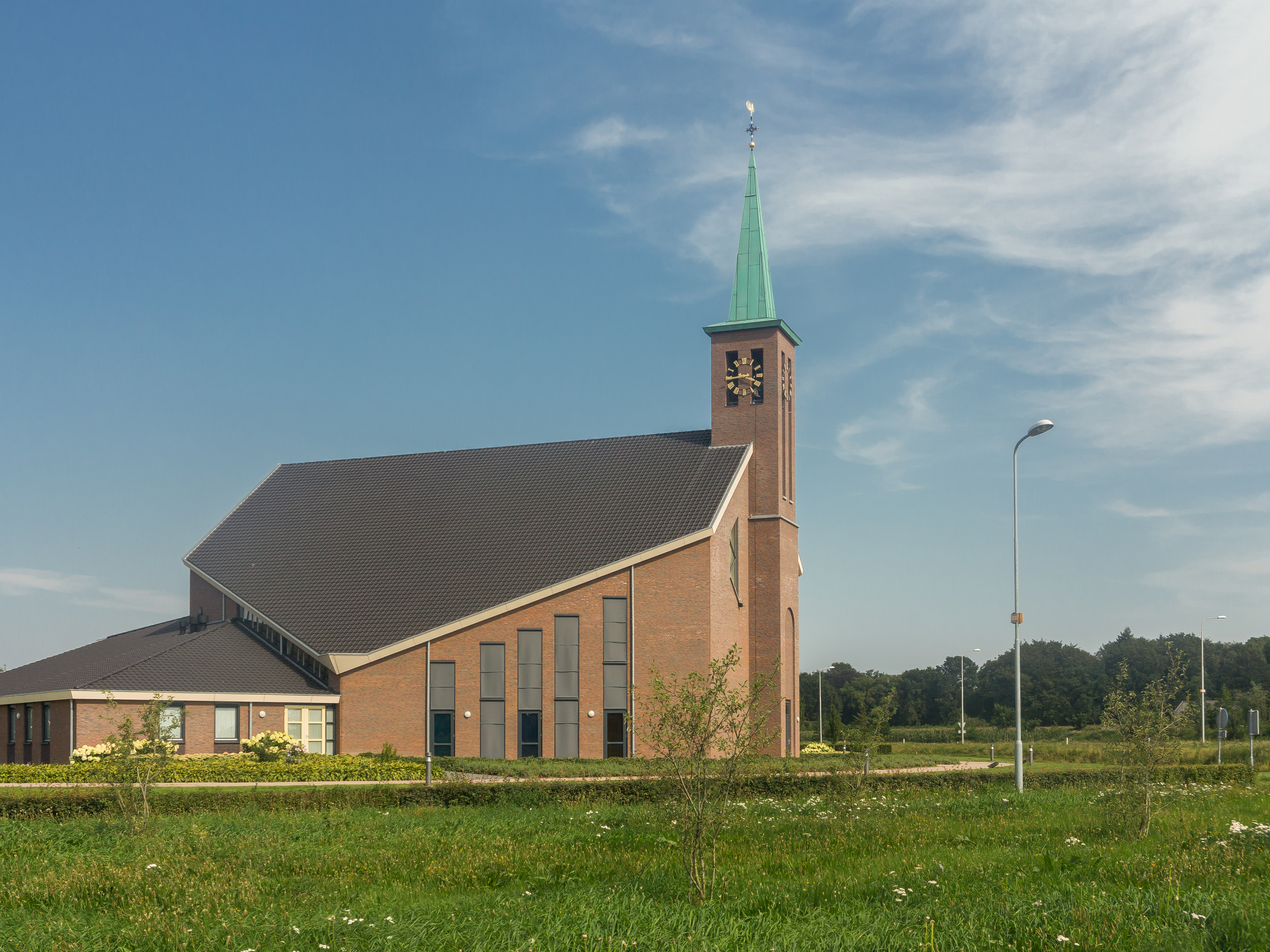 Bijsteren, reformed church